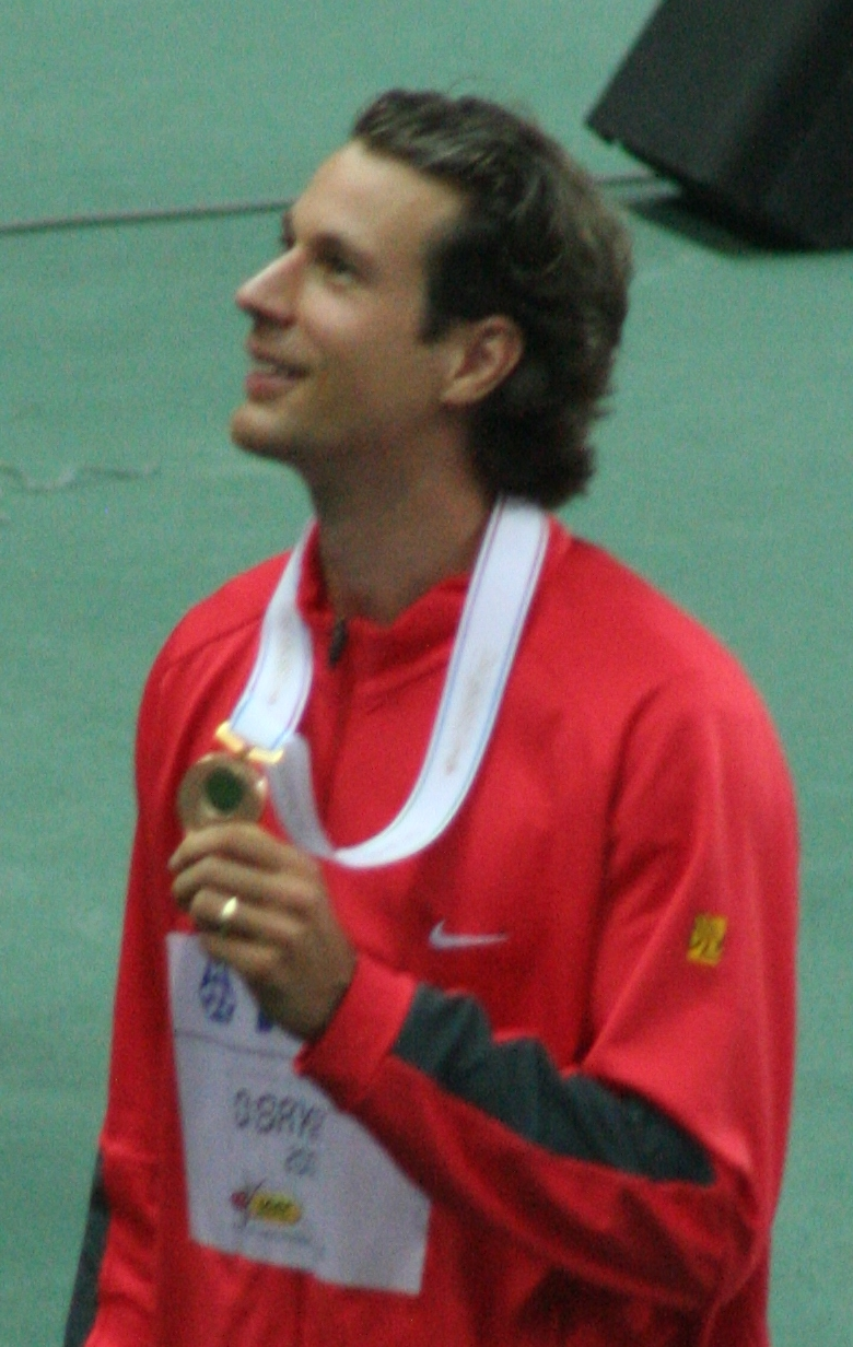 World Athletics Championships 2007 in Osaka - German Pole Vault bronze medal winner Danny Ecker after the victory ceremony